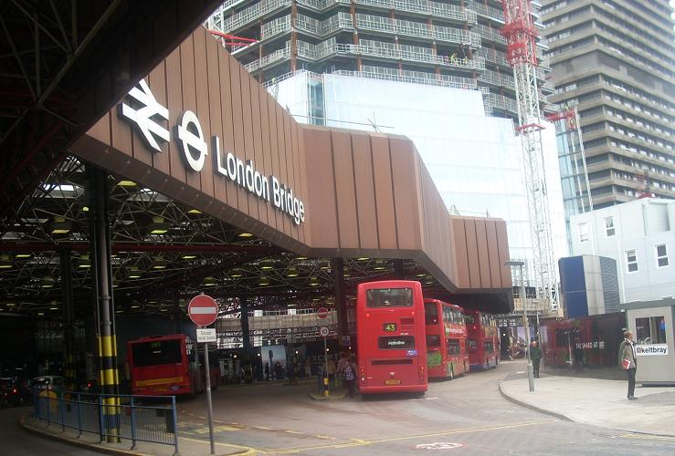 London Bridge bus station - August 2010